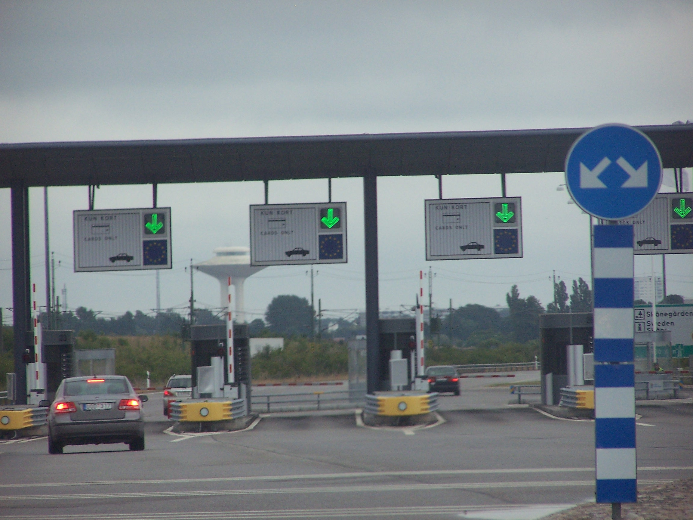 Pay station of the Oresund Bridge.